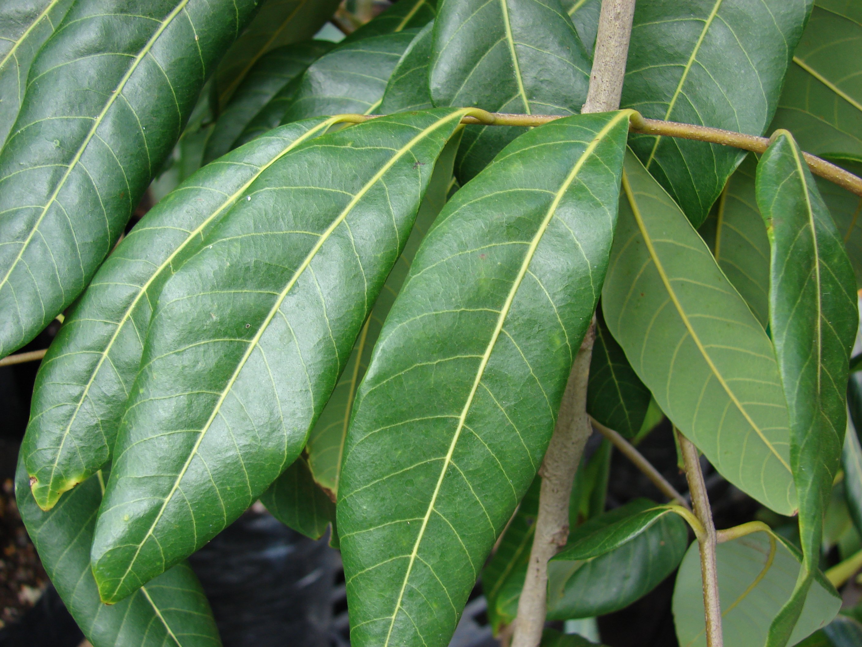 Dimocarpus longan (leaves). Location: Maui, Kula Ace Hardware and Nursery